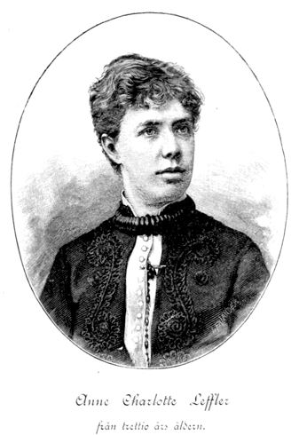 Anne Charlotte Leffler in her 30s